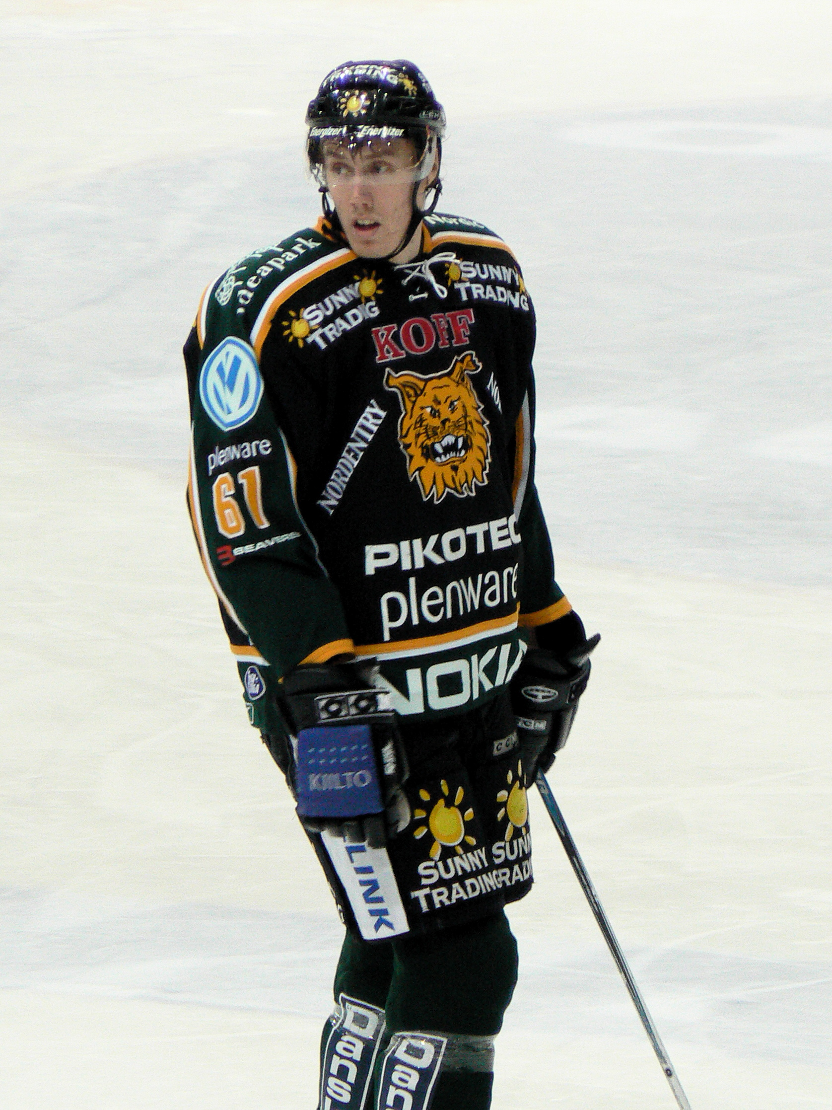 Finnish ice hockey winger Marko Anttila of Ilves Tampere in January 2008.